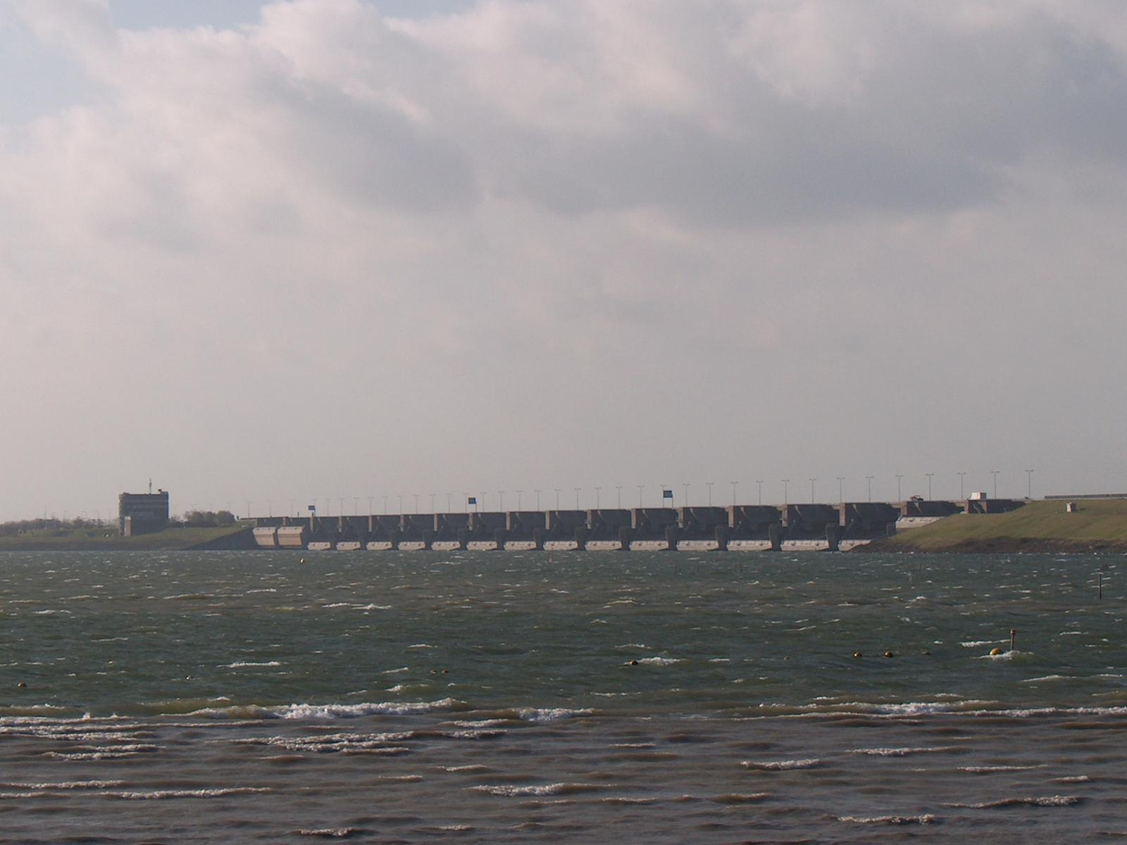 Haringvlietdam_Northview_Freshwaterview_Nov2005